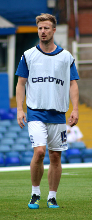 Wade Elliott vs Antwerp at St.Andrew's Stadium.